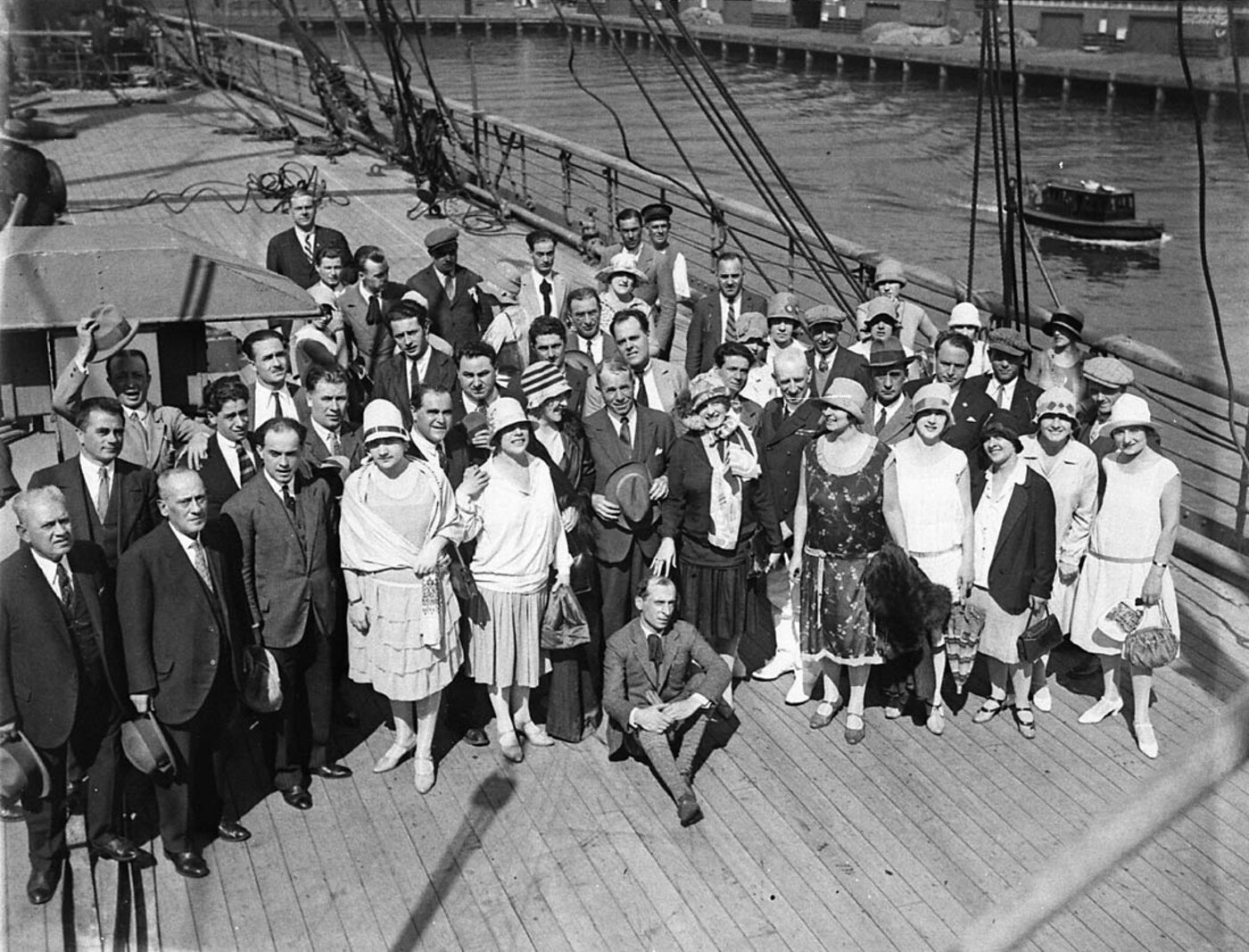 Sir Benjamin Fuller with the Gonsalez Opera Company arriving by ship for the Fullers Circuit.